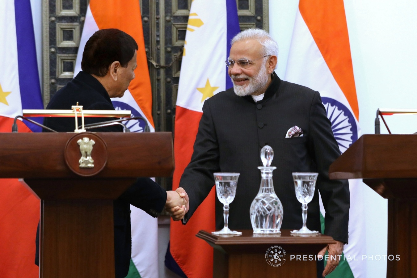 President Rodrigo Roa Duterte and Indian Prime Minister Narendra Modi shake hands after declaring their joint statement following a successful bilateral meeting at the Hyderabad House in New Delhi, India on January 24, 2018. KARL NORMAN ALONZO/PRESIDENTIAL PHOTO